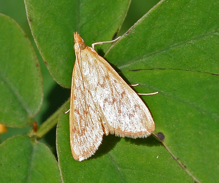 Spilomelinae at Ananthagiri Hills, in Rangareddy district of Andhra Pradesh, India.